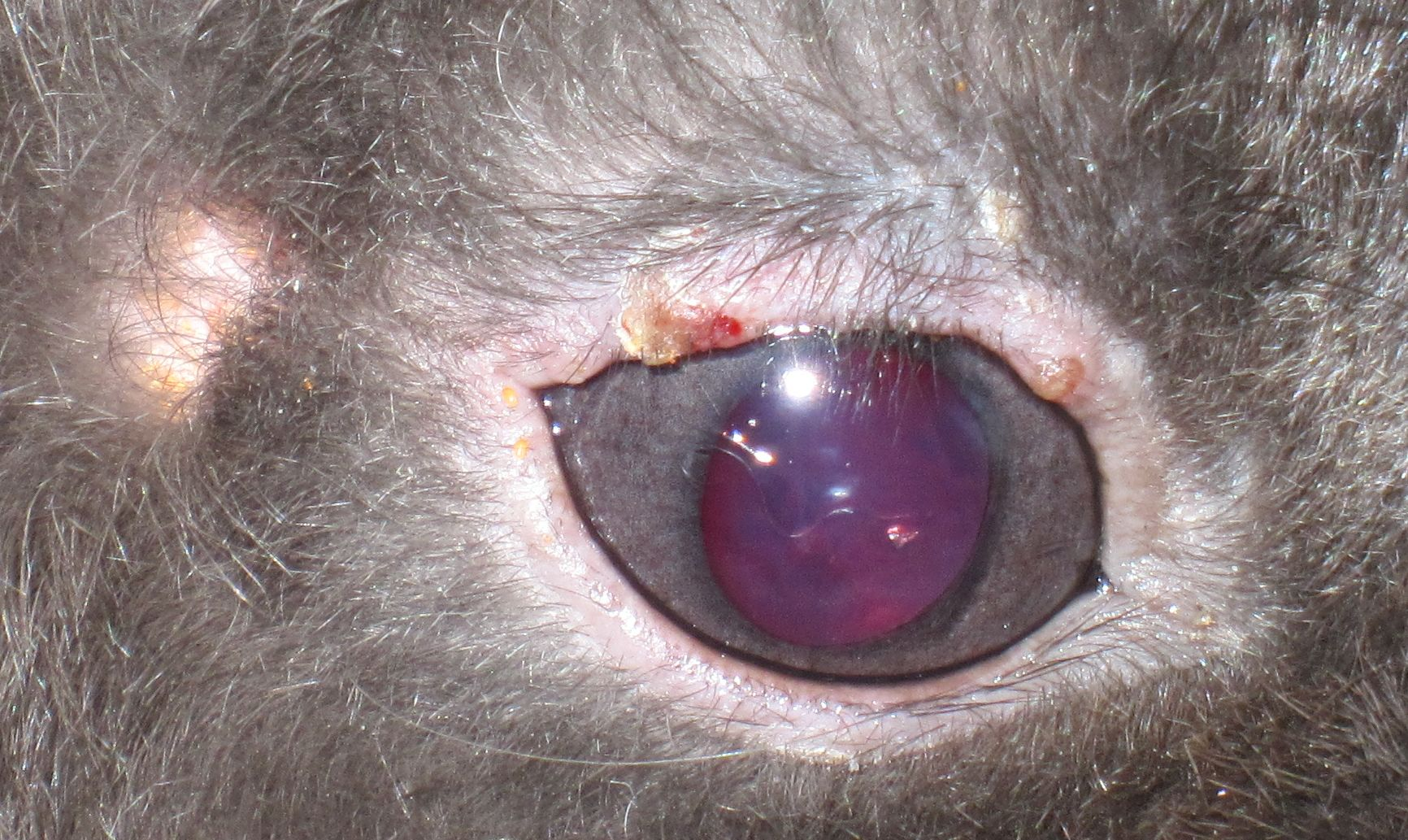 Infestation with Trombicula autumnalis of the periorbital region in a rabbit